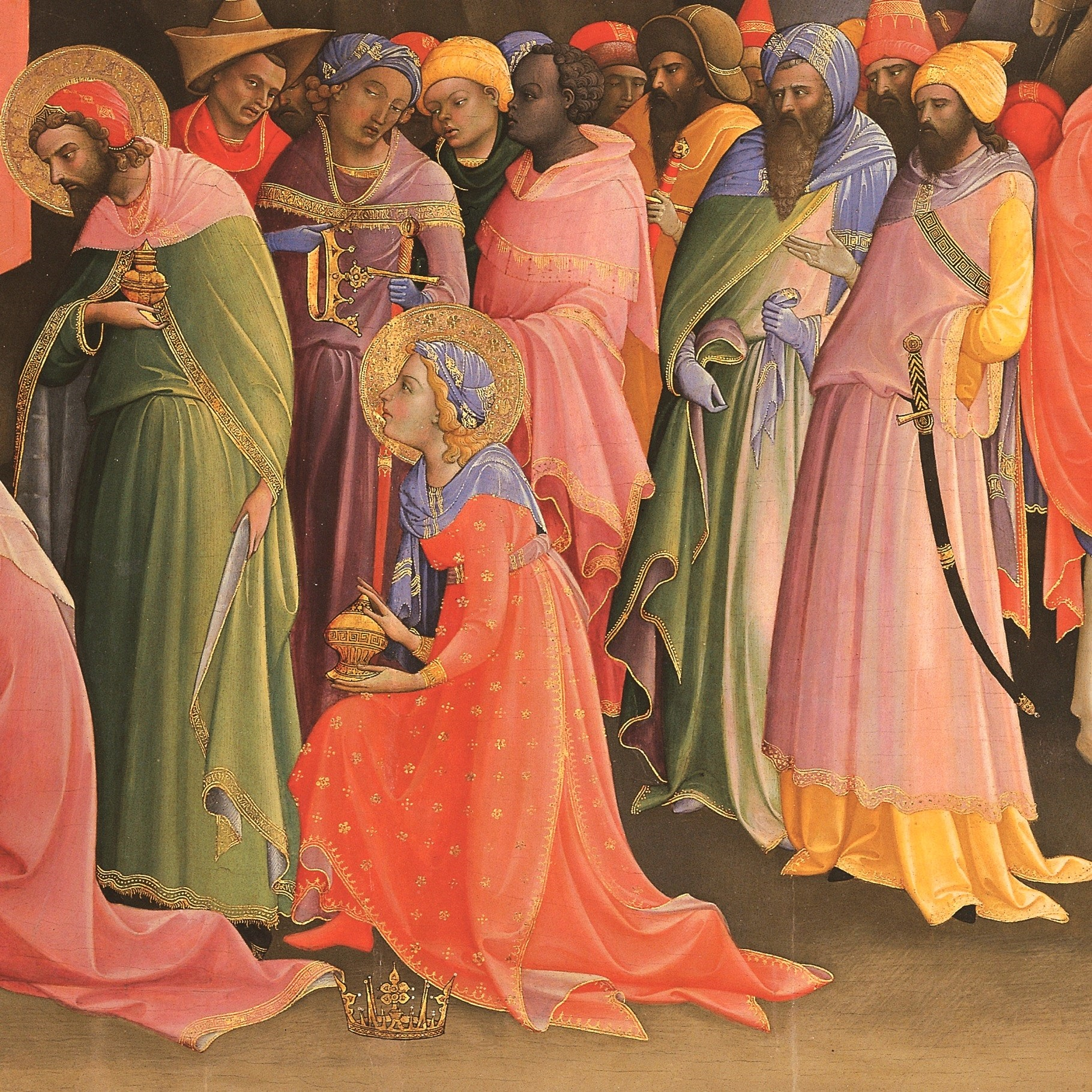 Adoration of the Magi by Lorenzo Monaco